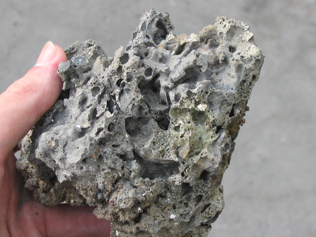 Ash slag from a biomass fire (wood-fired power plant)